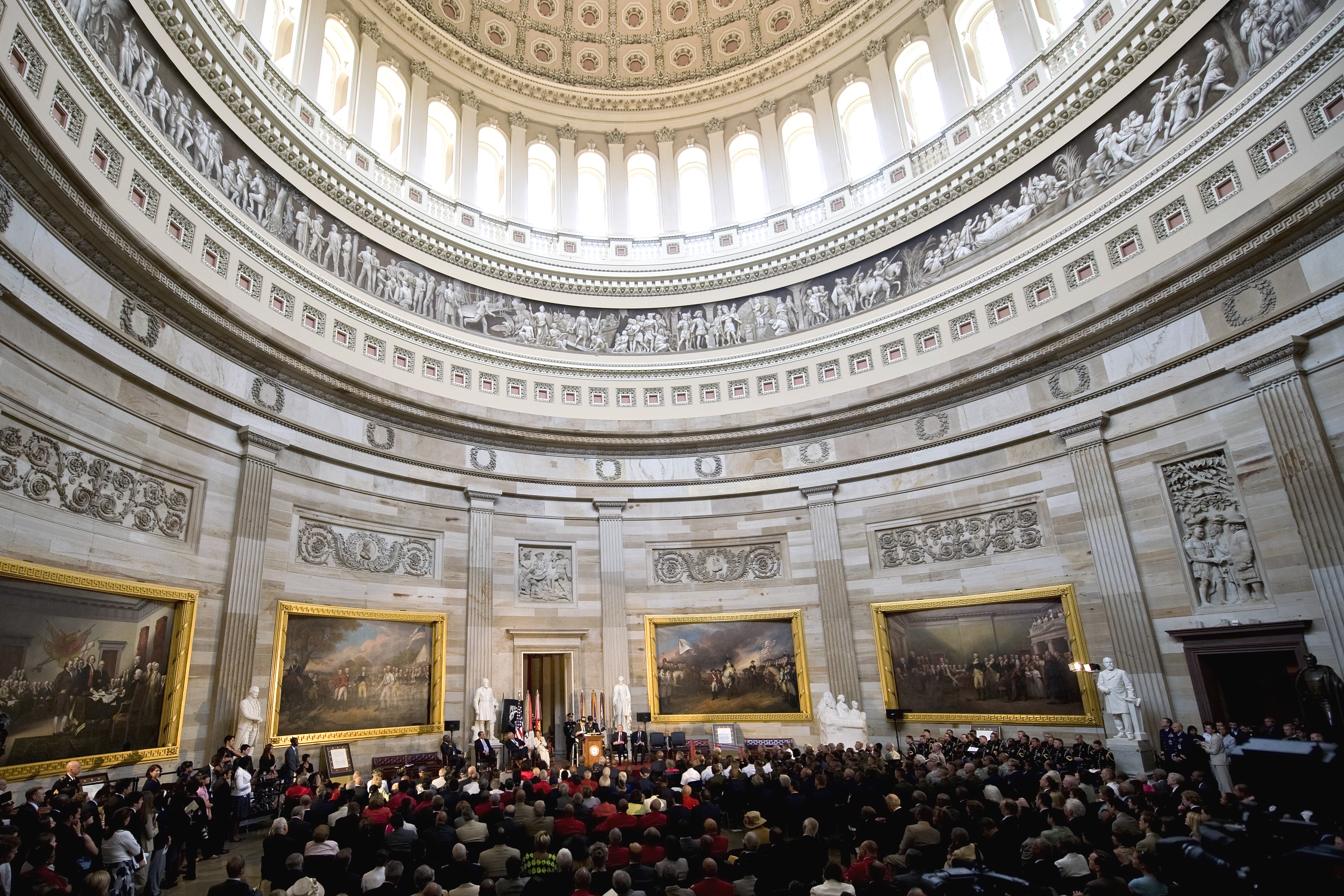 World War II veteran Spencer Moore addresses the audience at a ceremony in the Capitol Rotunda, Washington, D.C., July 23, 2008. U.S. Army photo by D. Myles Cullen